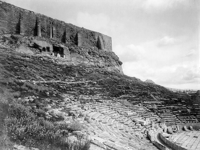 The theatre of Dionysus in Athens, in 1880.